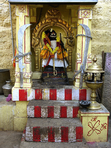 Temple to the god Aiyanar. Close to Madurai in Tamil Nadu